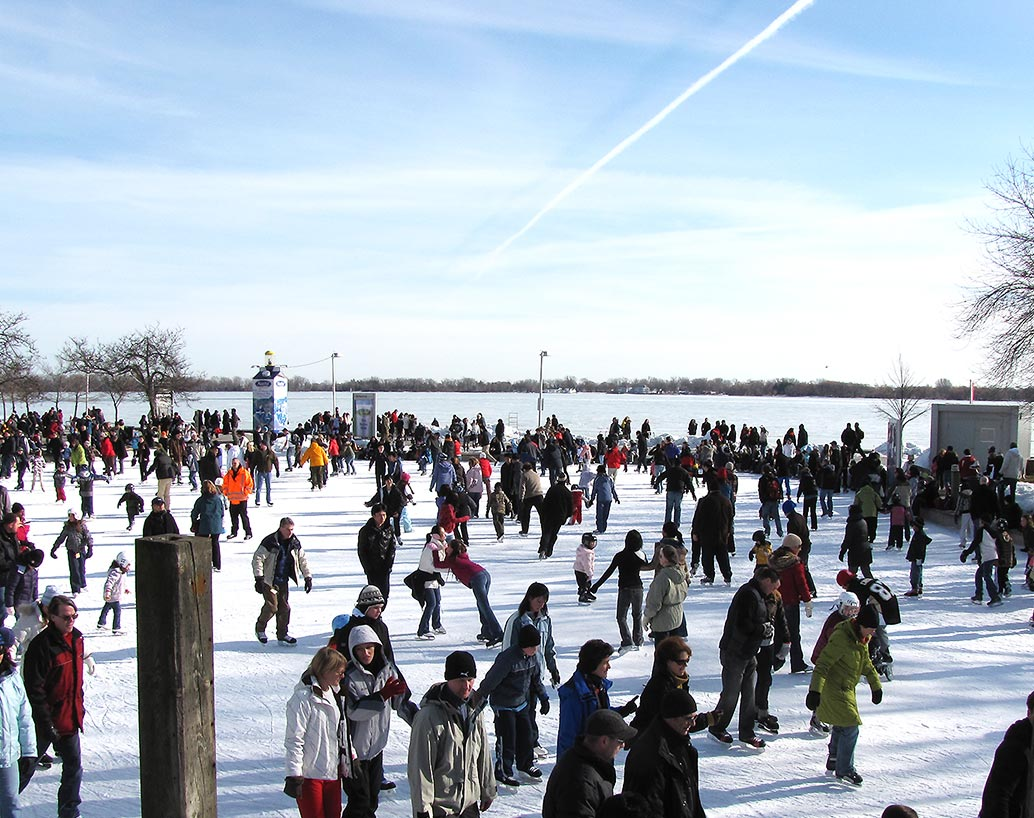 Ice skating at Harbourfront, Toronto, Canada.